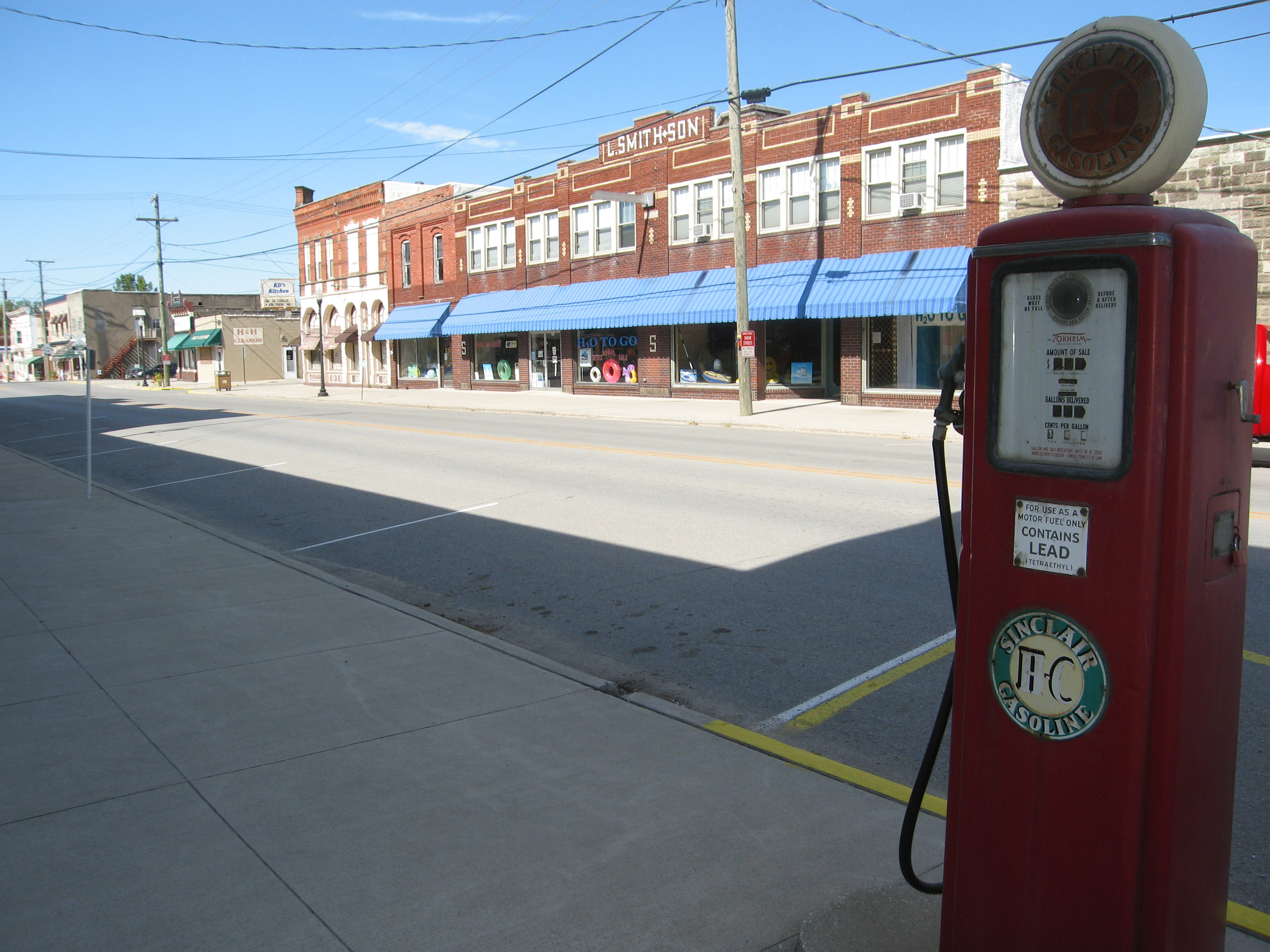 Photograph of the village of Antwerp, Ohioen, taken at street level from the intersection of Daggett and Main streets, looking North West up Ohio State Route 49 toward U.S. Route 24.